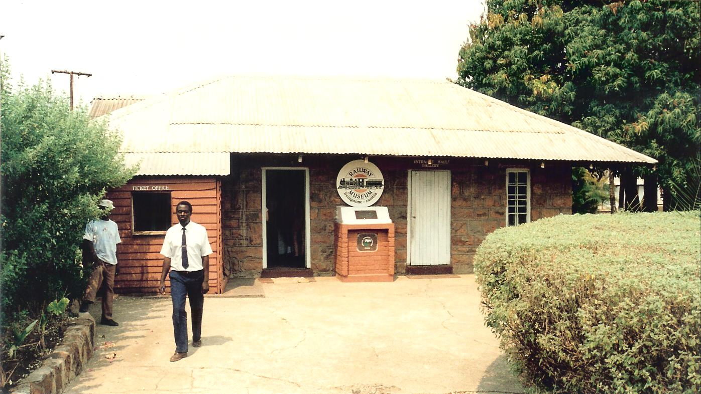 The entrance building to the Railway Museum, Livingstone, Zambia